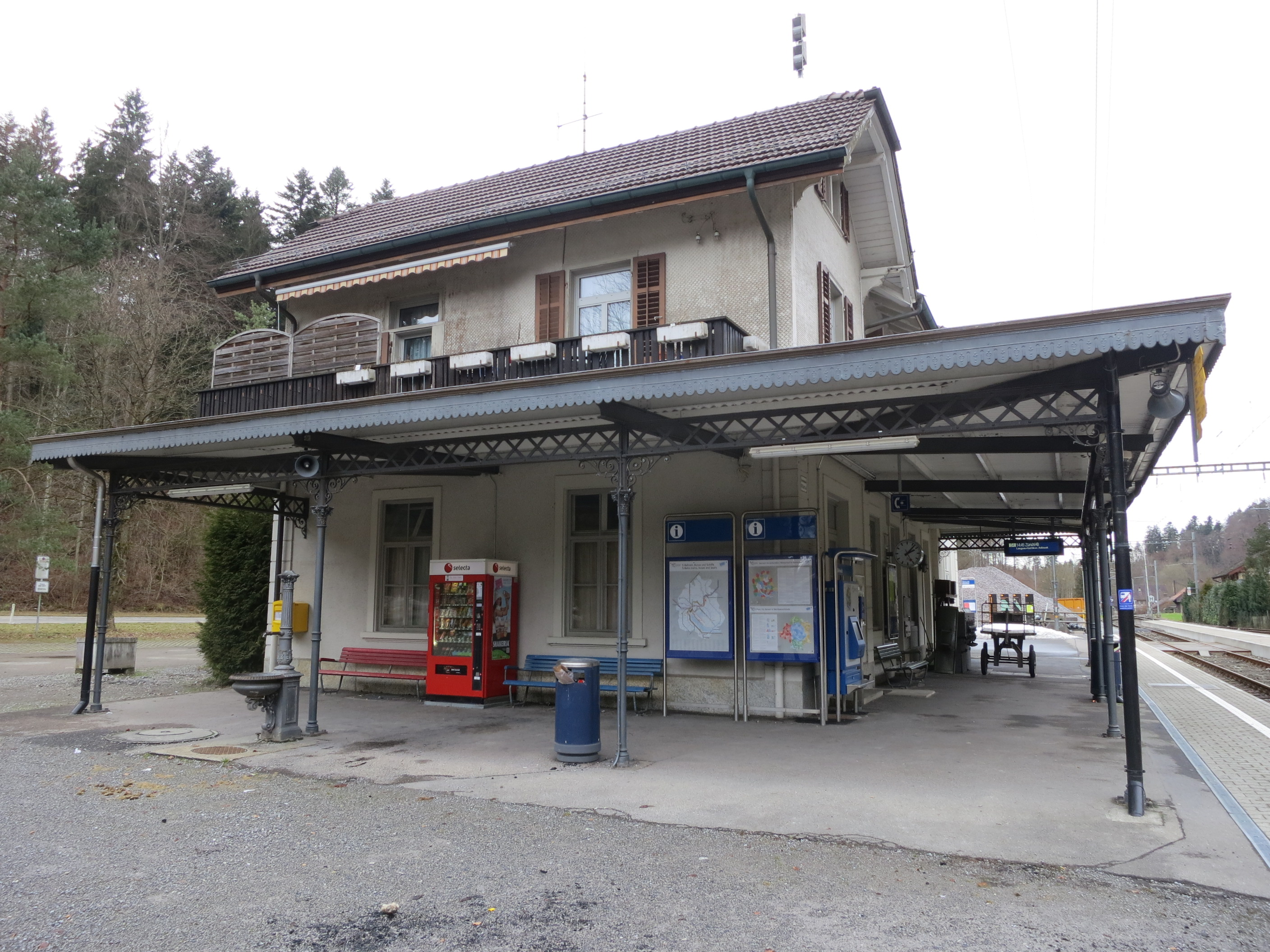 Bahnhof Sihlwald, Horgen ZH, Schweiz